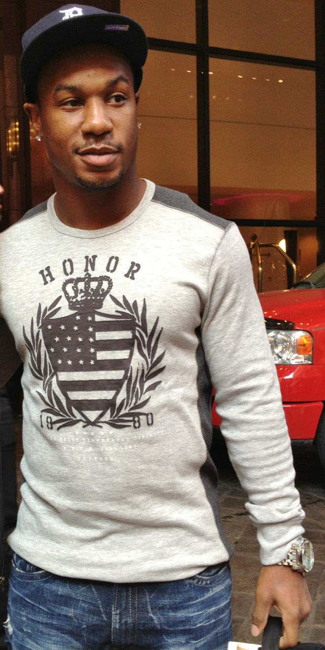 New Orleans Saints running back Darren Sproles in 2011.